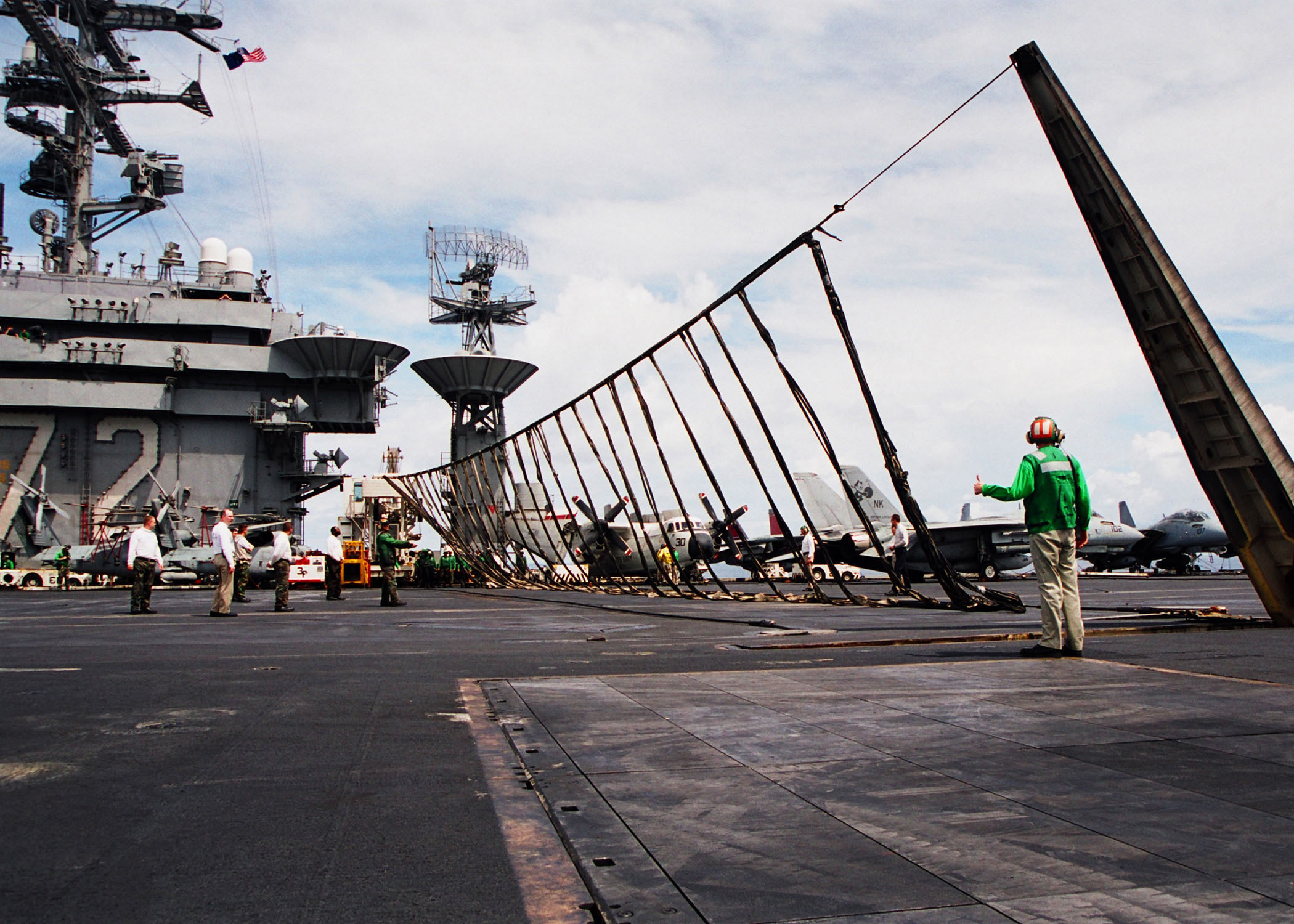 At sea aboard USS Abraham Lincoln (CVN 72) Jan. 3, 2003 -- After a successful barricade drill, the barricade is carefully lowered as supervisors watch attentively. Barricades are used as a last resort for emergency recoveries of aircraft aboard the ship. Lincoln and her embarked Carrier Air Wing Fourteen (CVW-14) are conducting missions in the Western Pacific. The Lincoln Battle Group, due to return home in late January, was notified the deployment has been extended. U.S. Navy photo by Photographer's Mate 3rd Class Jennifer Nichols. (RELEASED)